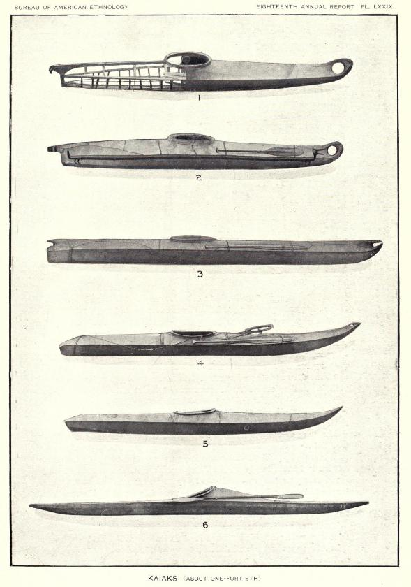 6 examples of kayaks built and used by Yu'pik (1-3) and Inupiaq (4-6) hunters on the Alaska coast, late 1800s. 1 and 2 Nunivak; 3 St Michael; 4 King Island; 5 Cape Espenberg; 6 Cape Krusenstern. Nelson gives dimensions and some construction details.